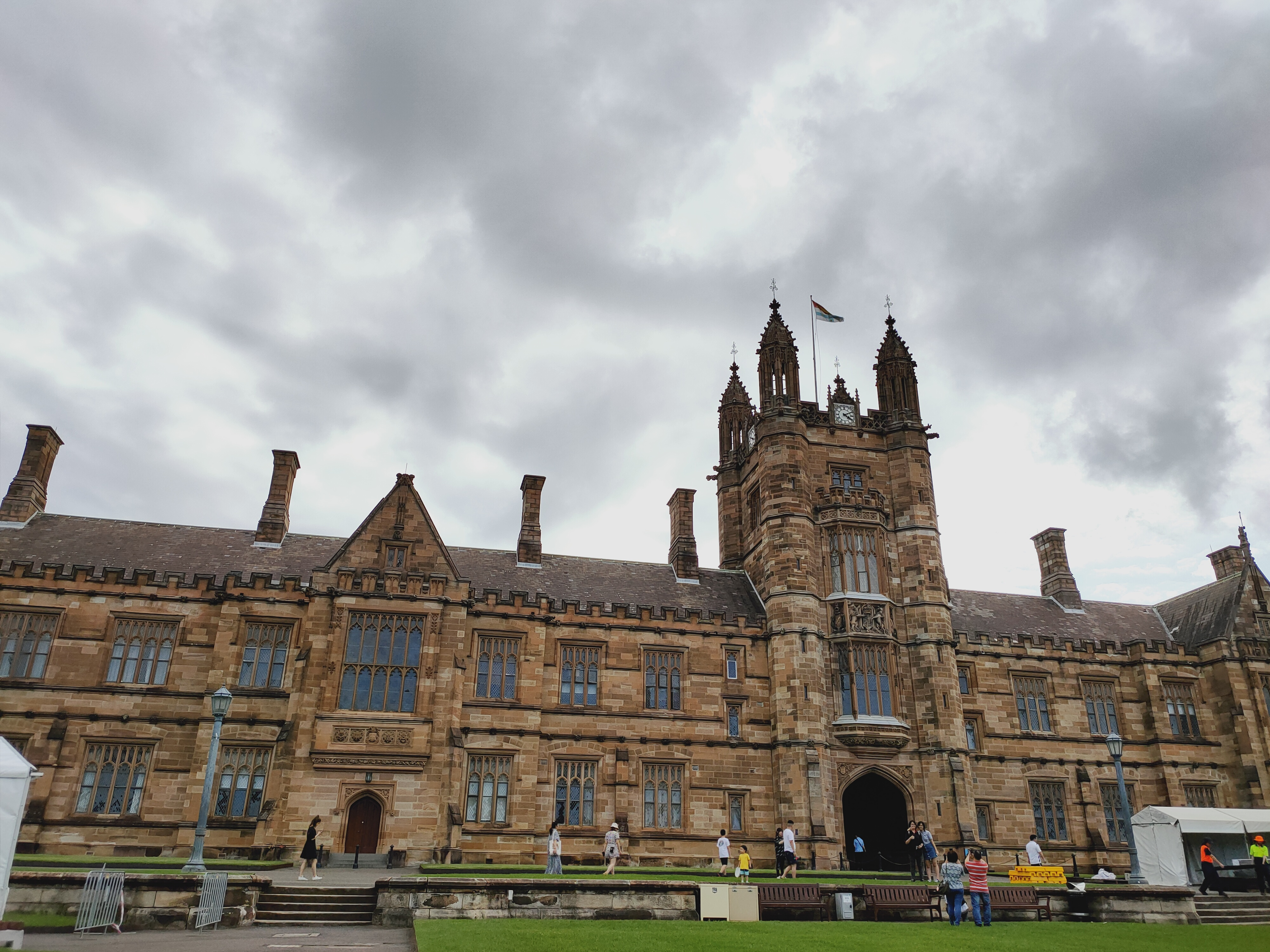 The Quadrangle in the University of Sydney at daytime